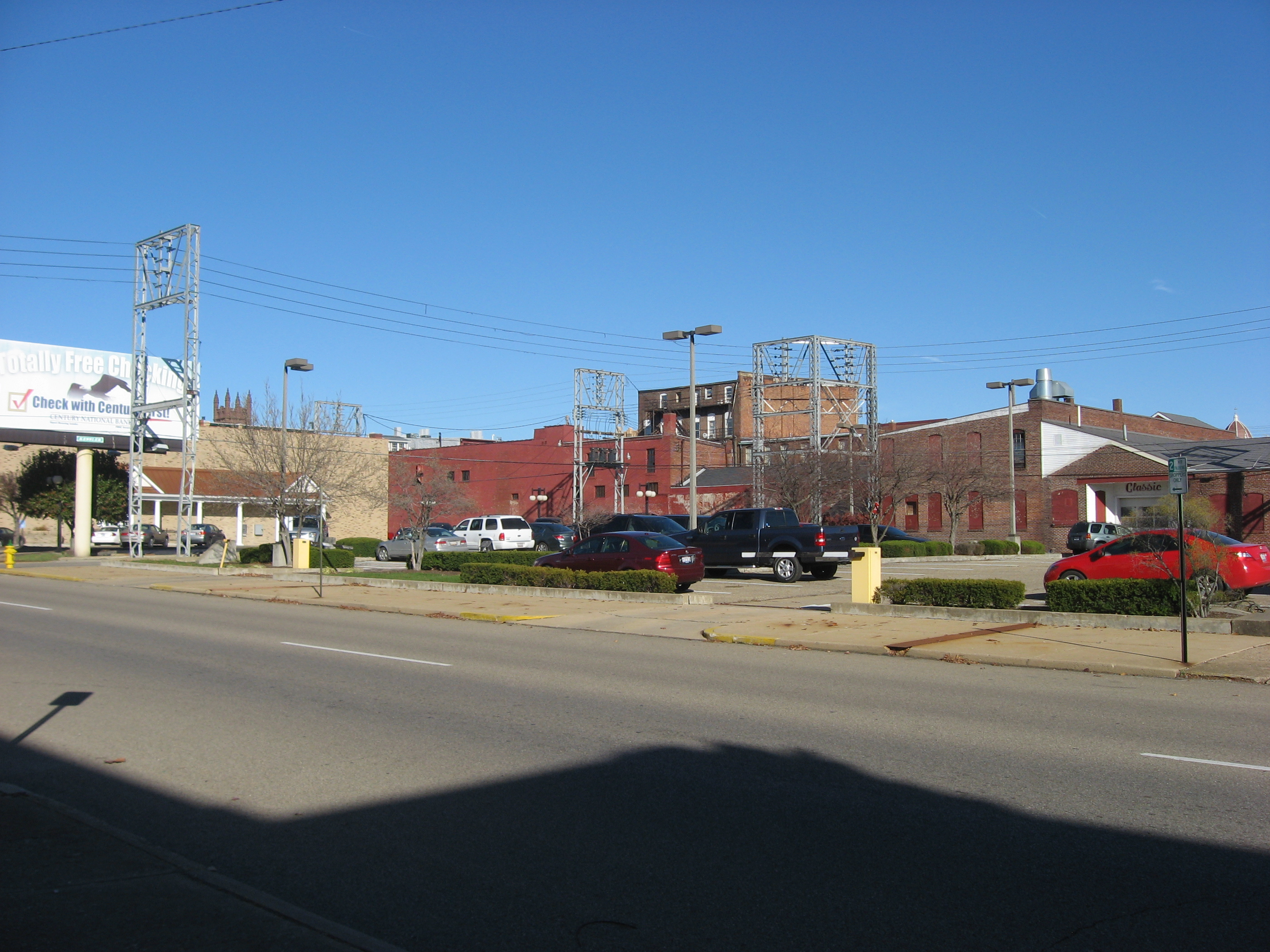 Site of the Zanesville YMCA at 34 S. Fifth Street in Zanesville, Ohio, United States. Built in 1919, the site is listed on the National Register of Historic Places, even though the building has been destroyed.